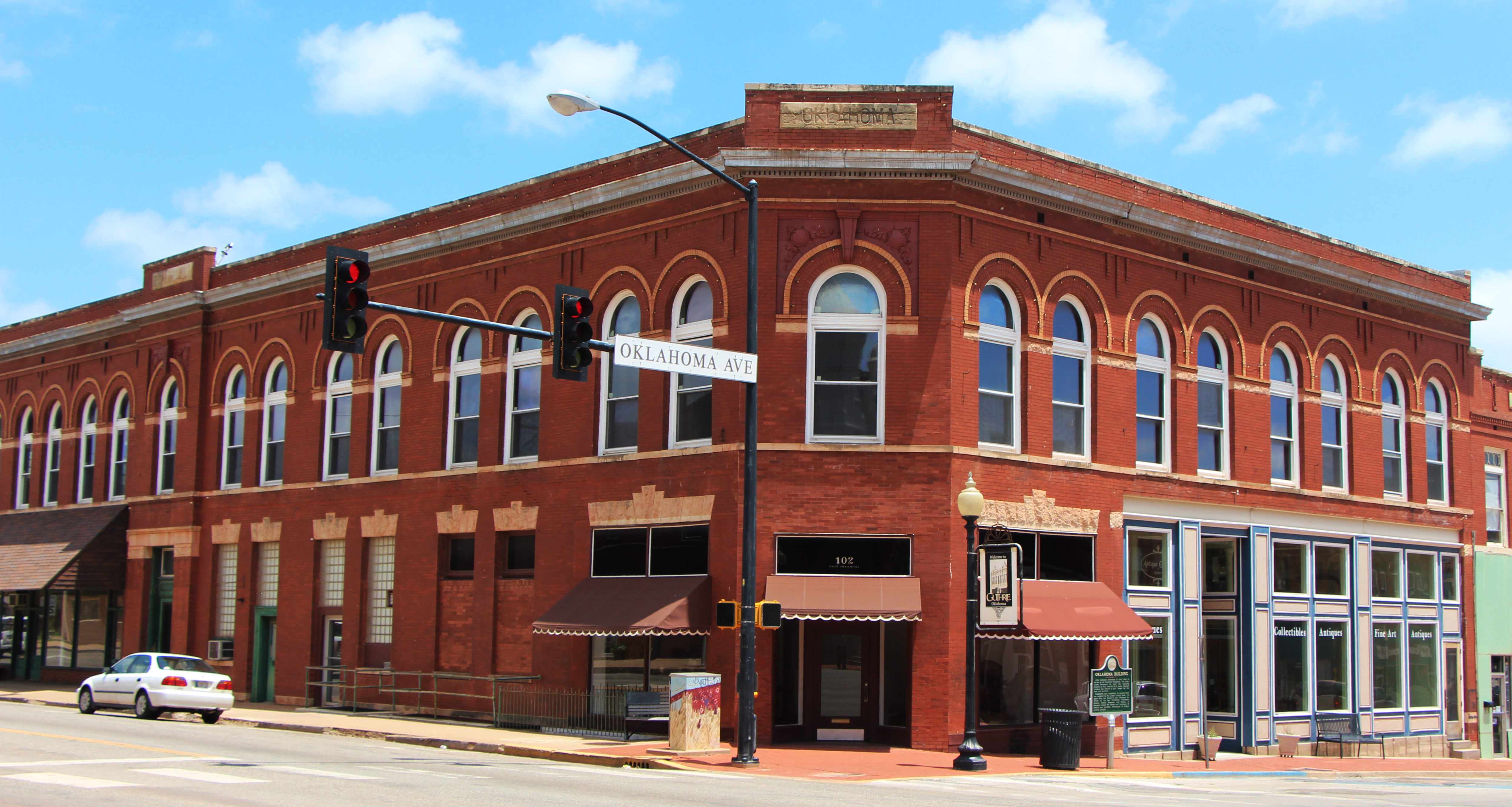 Oklahoma Building, Guthrie, Oklahoma